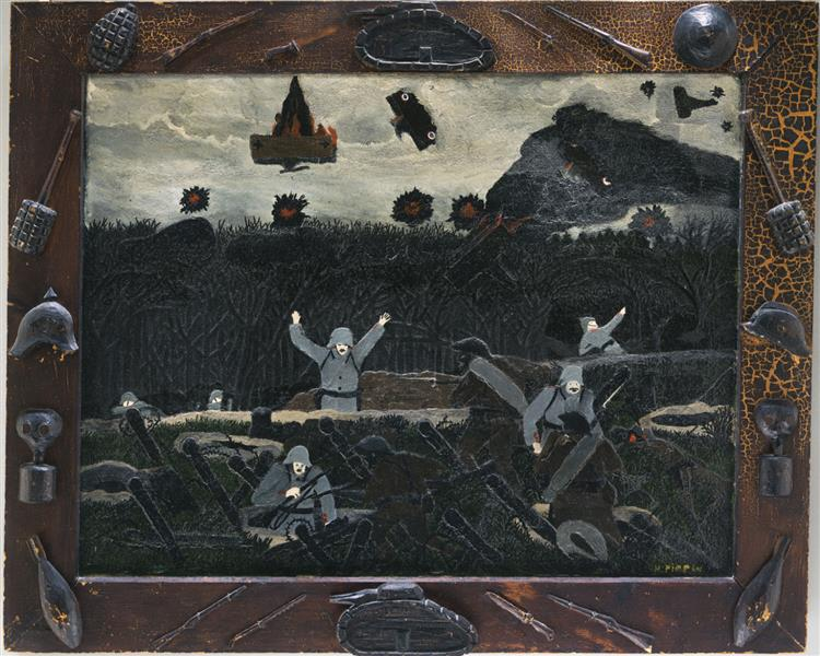 A depiction by Horace Pippin of the end of World War I